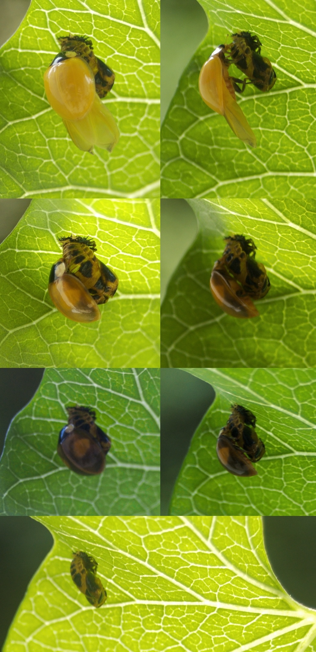 A coccinellidae photographed freshly out of its pupa (first row), and two (second row), and four (third row) hours later. The bottom row shows the pupa on which the specimen was sitting.